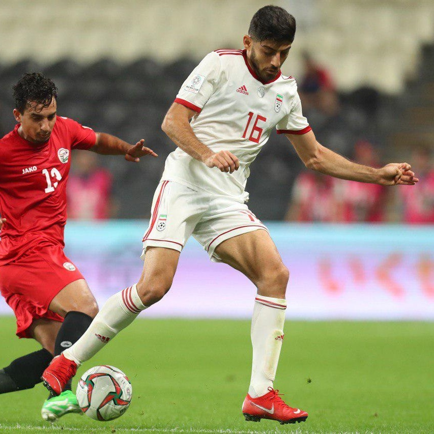 Mehdi Torabi playing for Iran at 2019 AFC Asian Cup